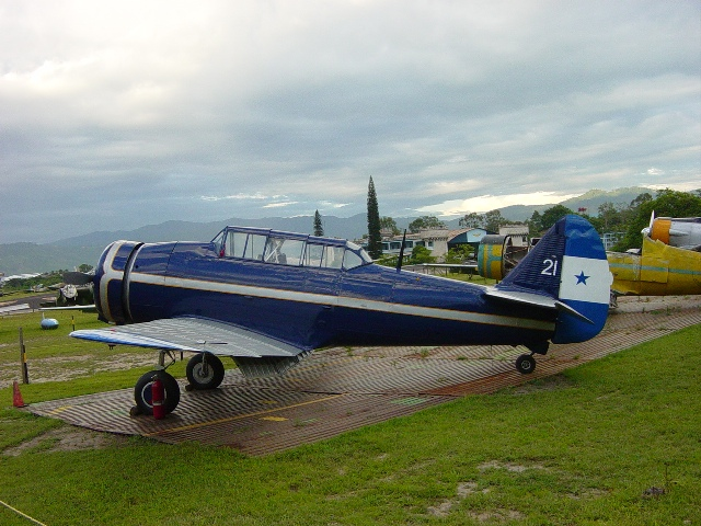 Fundacion Museo del Aire de Honduras